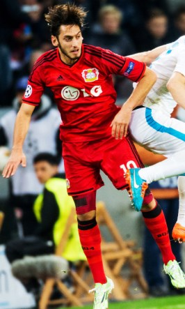 Hakan Çalhanoğlu